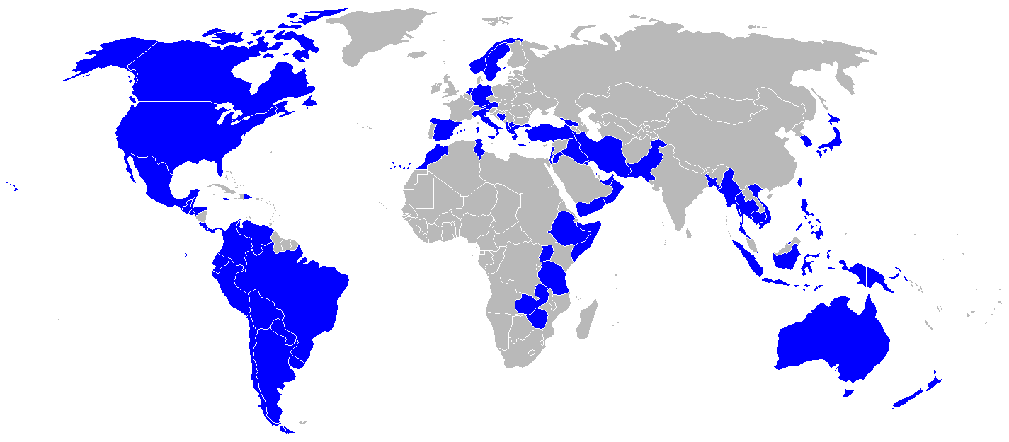 UH-1 Iroquois operators in blue.